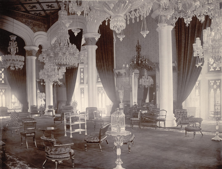 Durbar Hall, Palace, Bangalore (1890). Curzon Collection's 'Souvenir of Mysore Album'